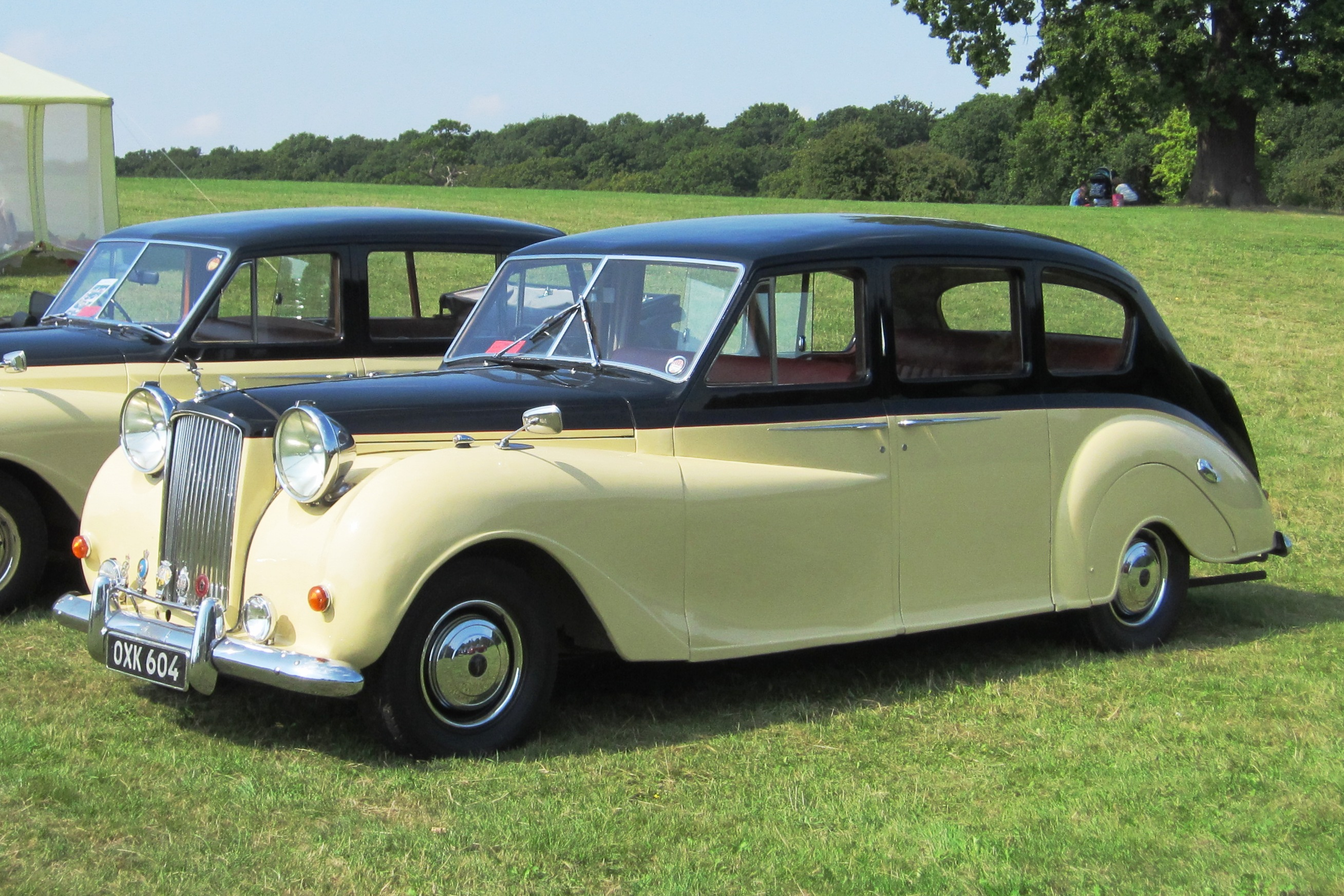 Austin Princes Limousine (1954)